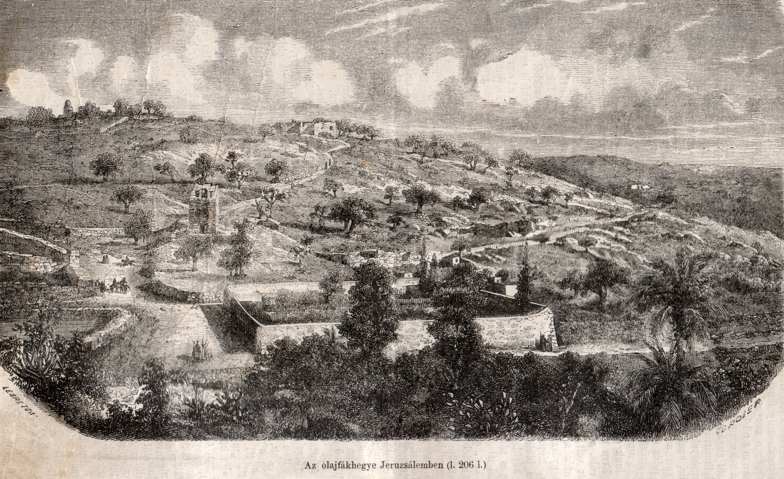 Mount of Olives, Jerusalem (1869)